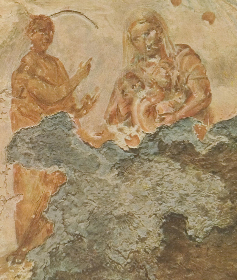 Image of the Virgin Mary, mother of Jesus, in the Catacomb of Priscilla in Rome. It depicts her nursing the Infant Jesus. This is earliest known image of Mary and the Infant Jesus independent of the Magi episode. The figure at the left appears to be the prophet Balaam pointing to a star (outside the frame). The star is from Numbers 24:17.